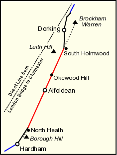 Map showing part of Stane Street, a Roman Road in South East England.